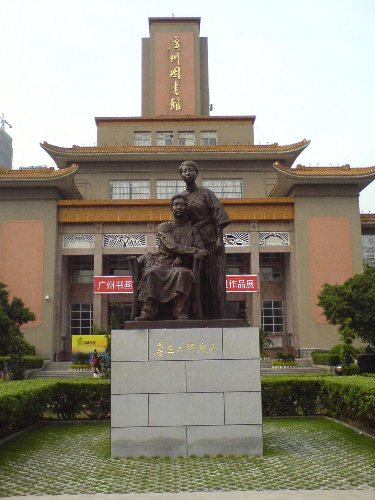 The statue of Lu Xun and his wife Xu Guangping, in front of the Guangzhou(Canton) Library.